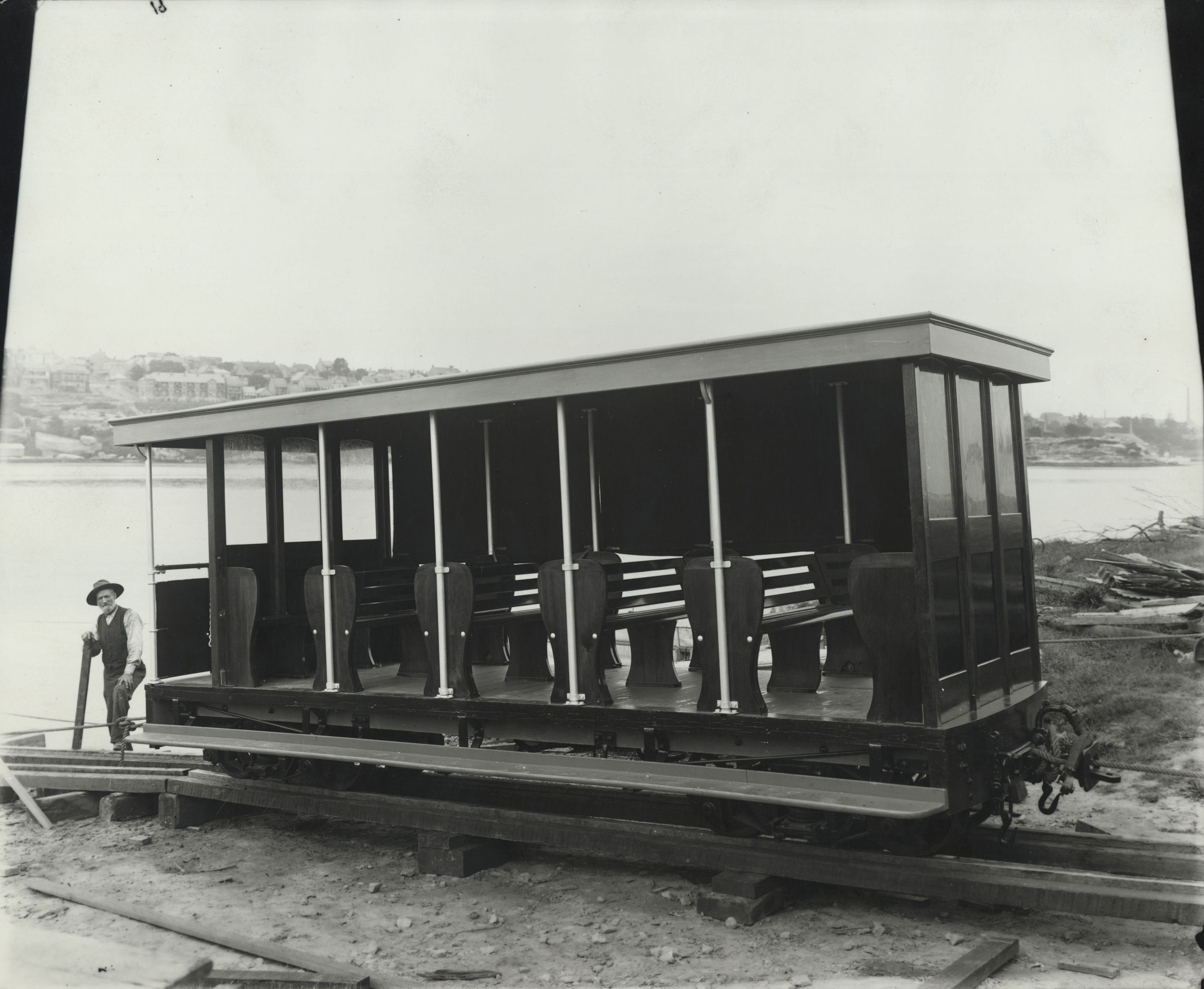 Cable Tramway car built for the Burrinjuck Dam tramway - Cockatoo Island Dated: c.1907 Digital ID: 4481_a026_000266 Rights: We'd love to hear from you if you use our photos. Many other photos in our collection are available to view and browse on our website using Photo Investigator.